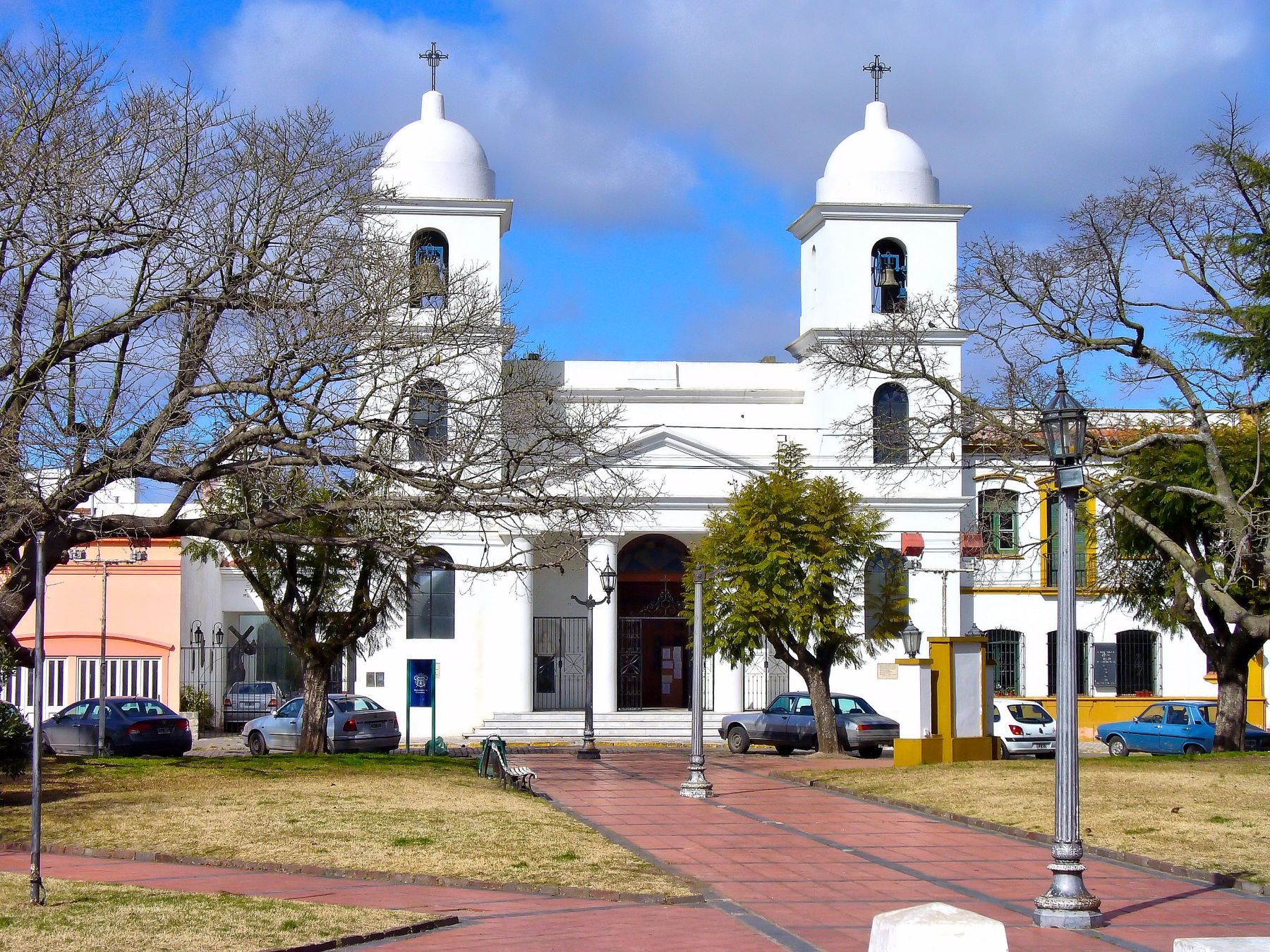 Front view of the Chascomús Cathedral, "Nuestra Señora de la Merced".